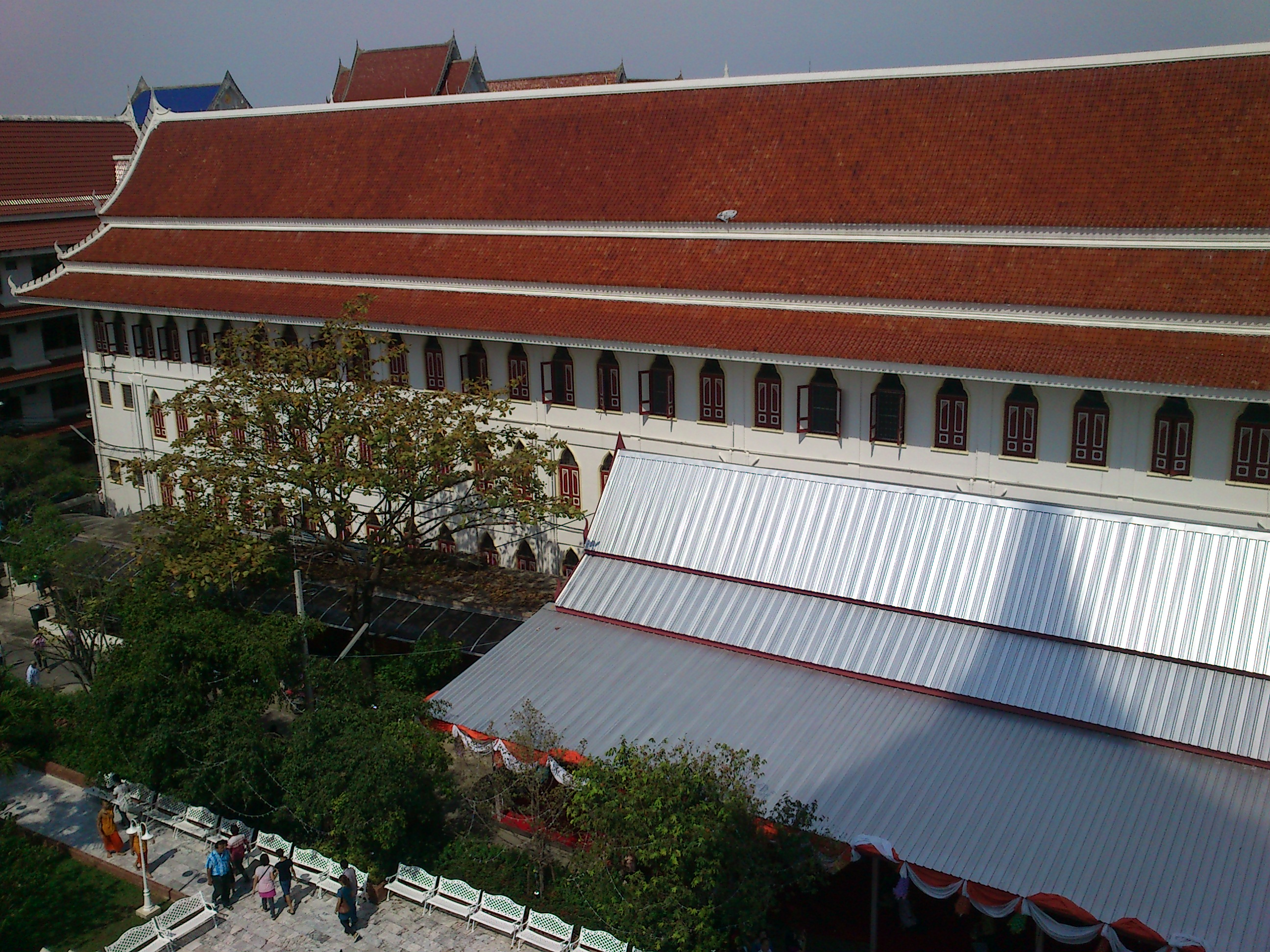 Residence and schools at Wat Paknam